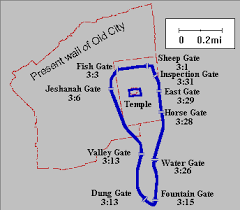 دروازه های اورشلیم قدیم